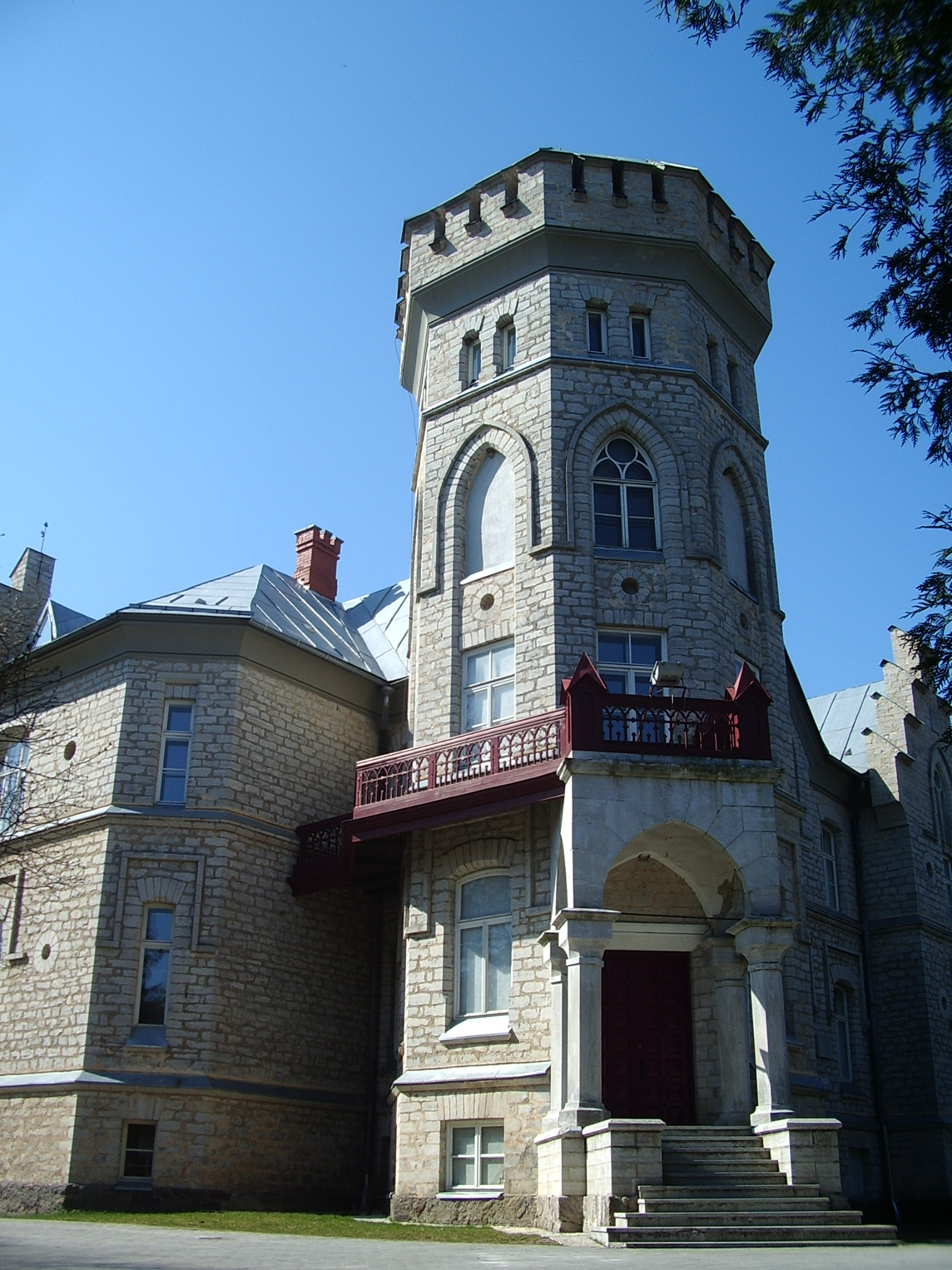 Vasalemma manor in Vasalemma parish, Harju county